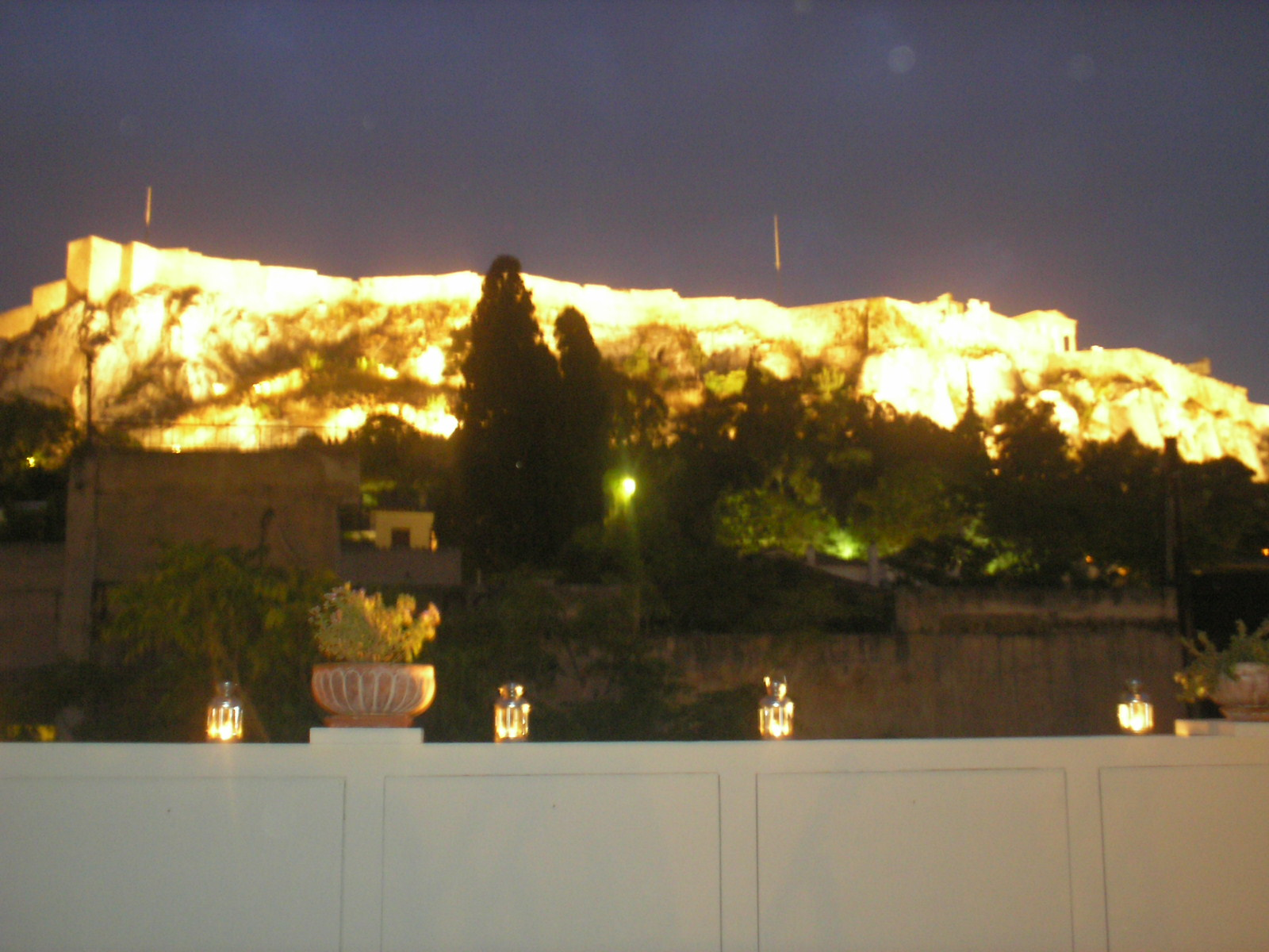 Vieww from the terrass of the Ionic Center